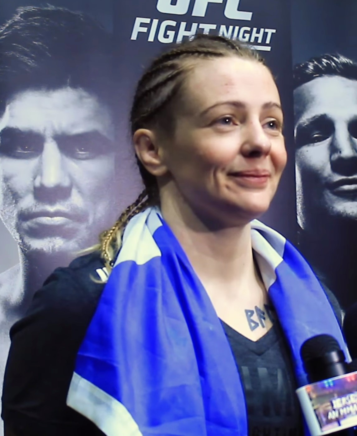 UFC Brooklyn: Soft spoken Joanne Calderwood disappointed she didn't finish newcomer Ariane Lipski Mixed martial artist Joanne Calderwood interviewed at Ultimate Fighting Championship Brooklyn. Visit Europe's biggest MMA website Follow us on our Social Media channels: Facebook: Instagram: Twitter